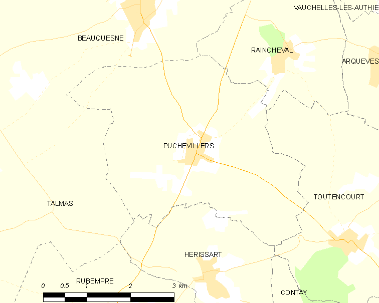 Map of French municipality Puchevillers